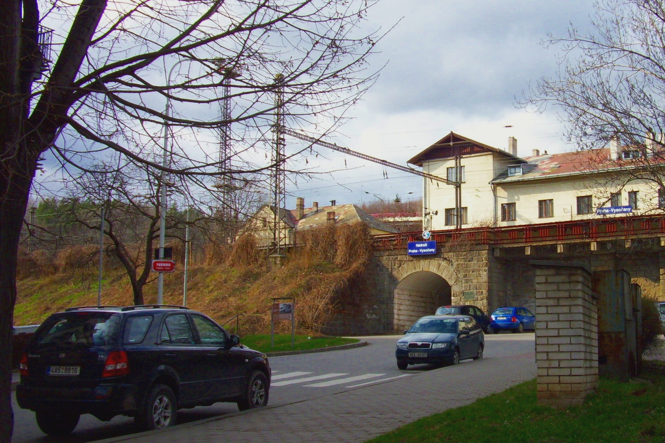 Praha-Vysočany railway station – underpass enter. Seen from Vysočany quarter.